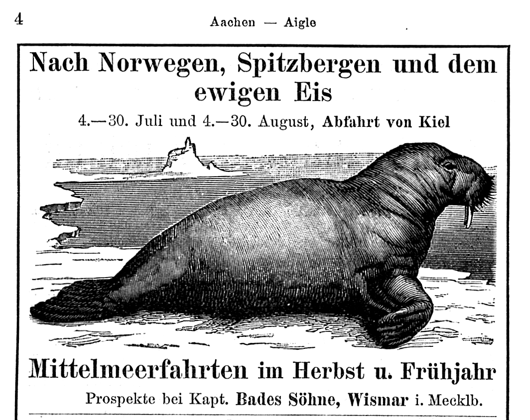 Advertisement in the travel guide Meyers "Mittelmeer" of the firm Capt. Bades Söhne Wismar for trips to arctic regions (1907)